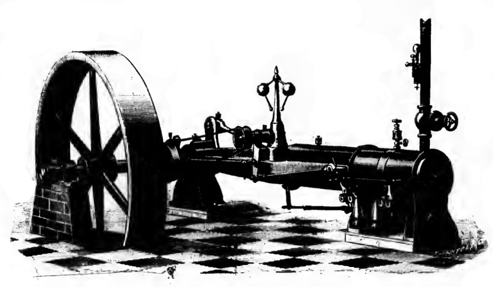 Illustration of the patented Wheelock Engine manufactured by the Goldie & McCulloch Company